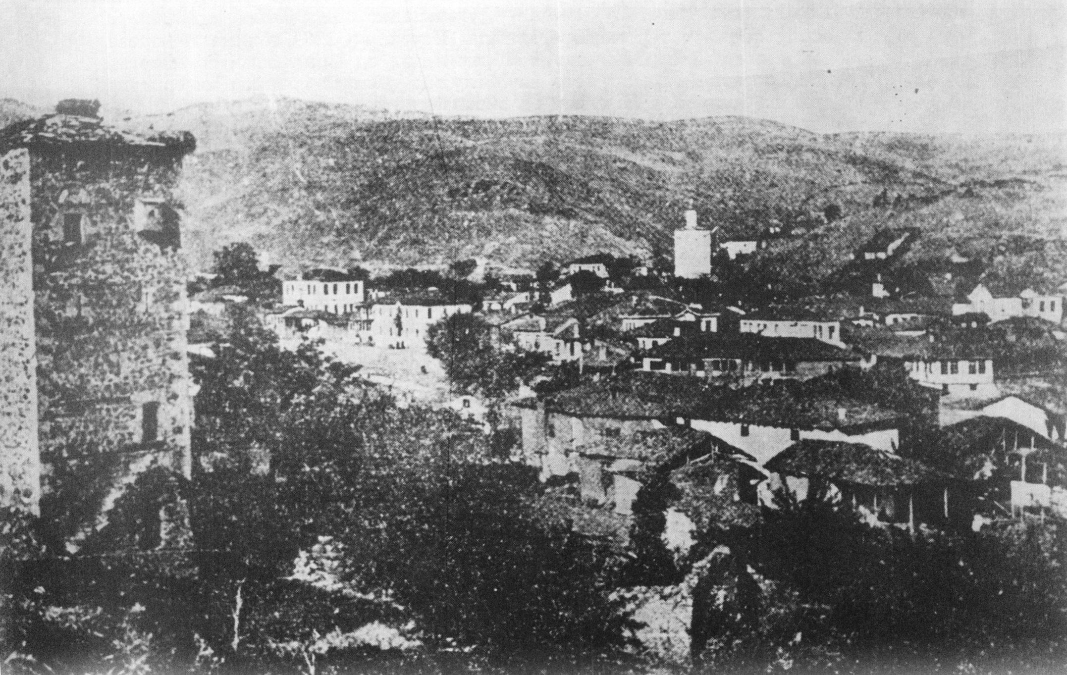 Photo of old city of Kocani